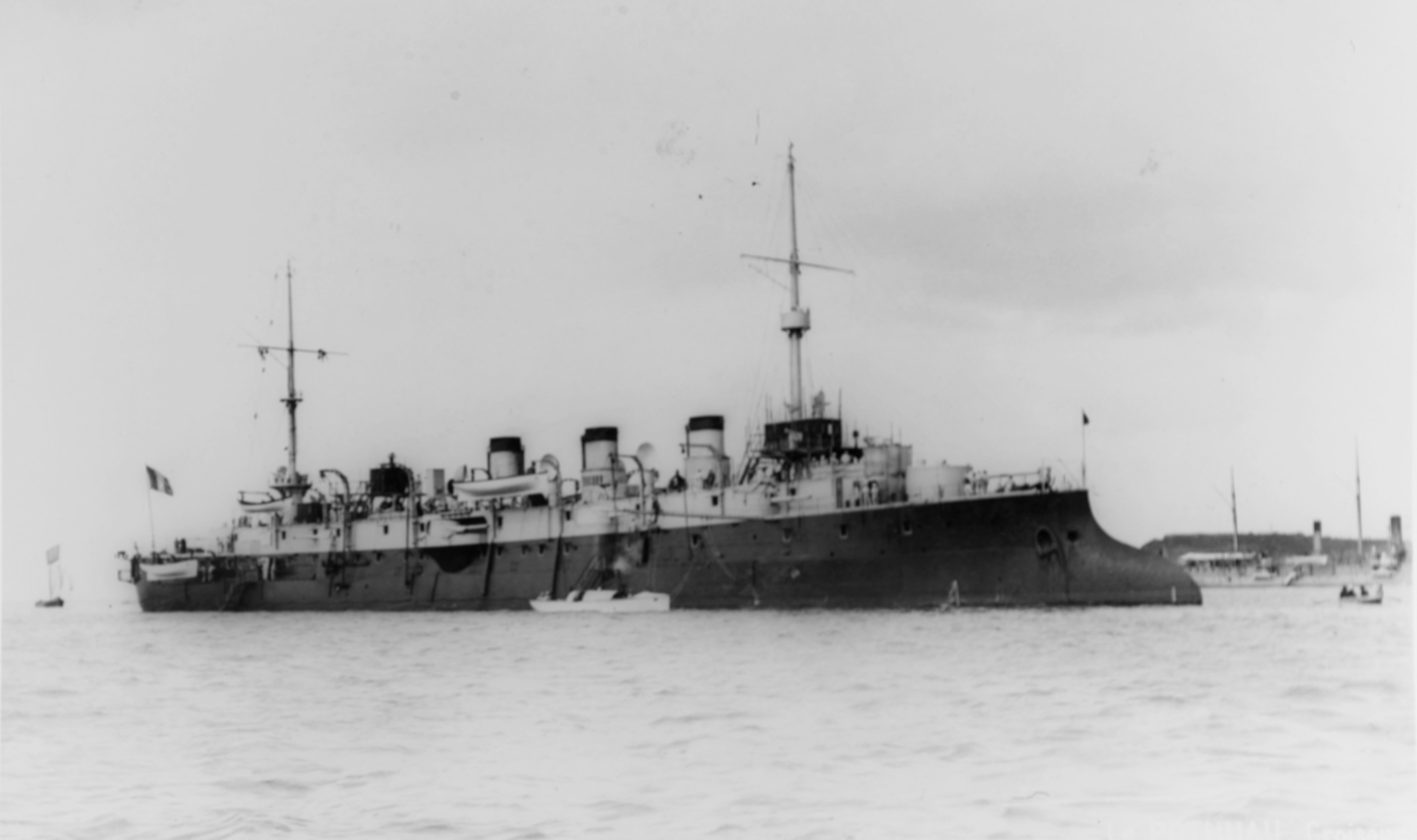 French armored cruiser Pothuau at anchor